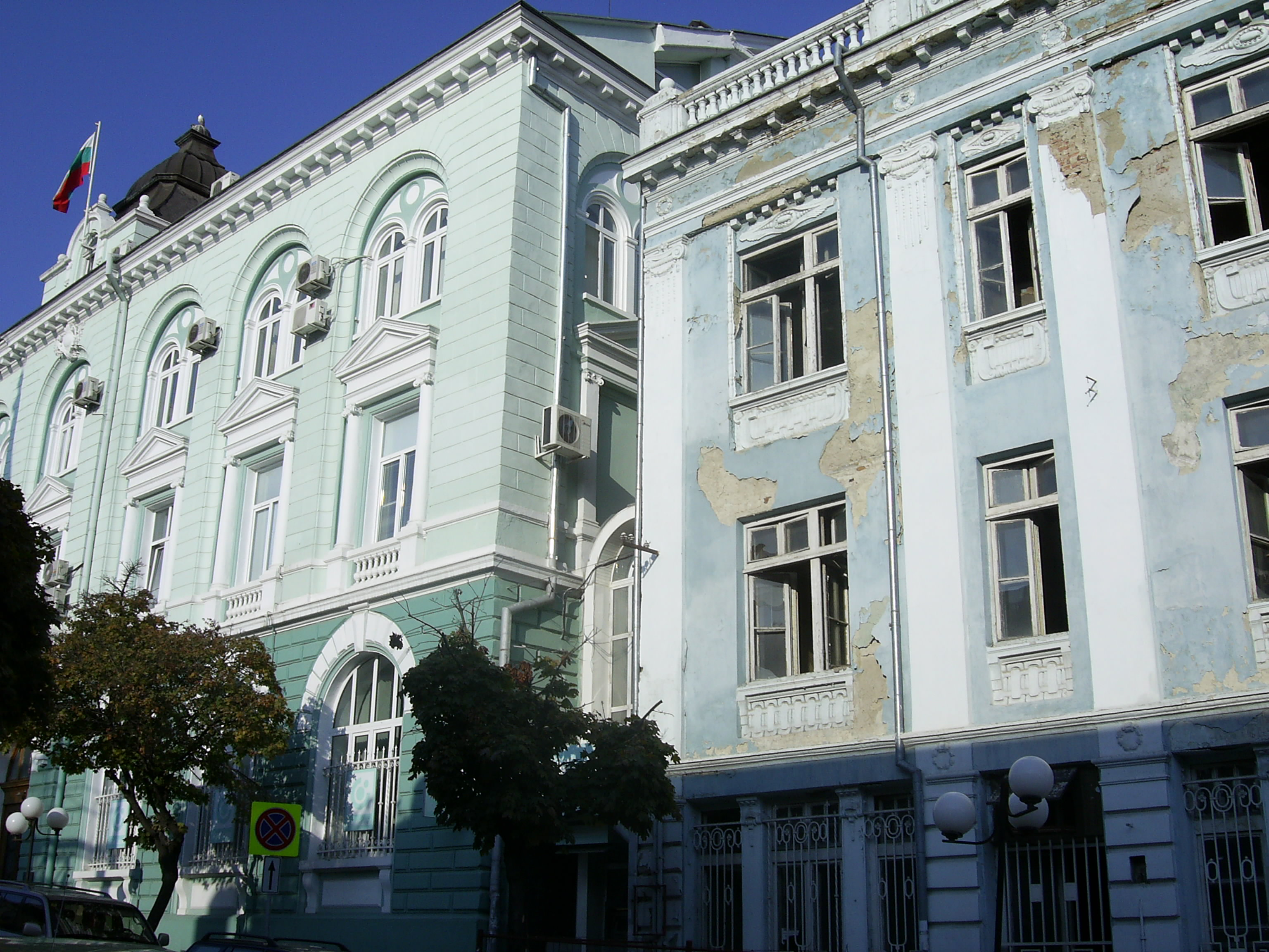 Old architecture in Varna